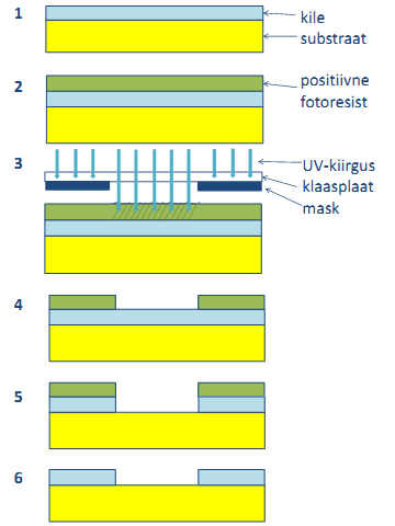 Simplified scheme of photolithography